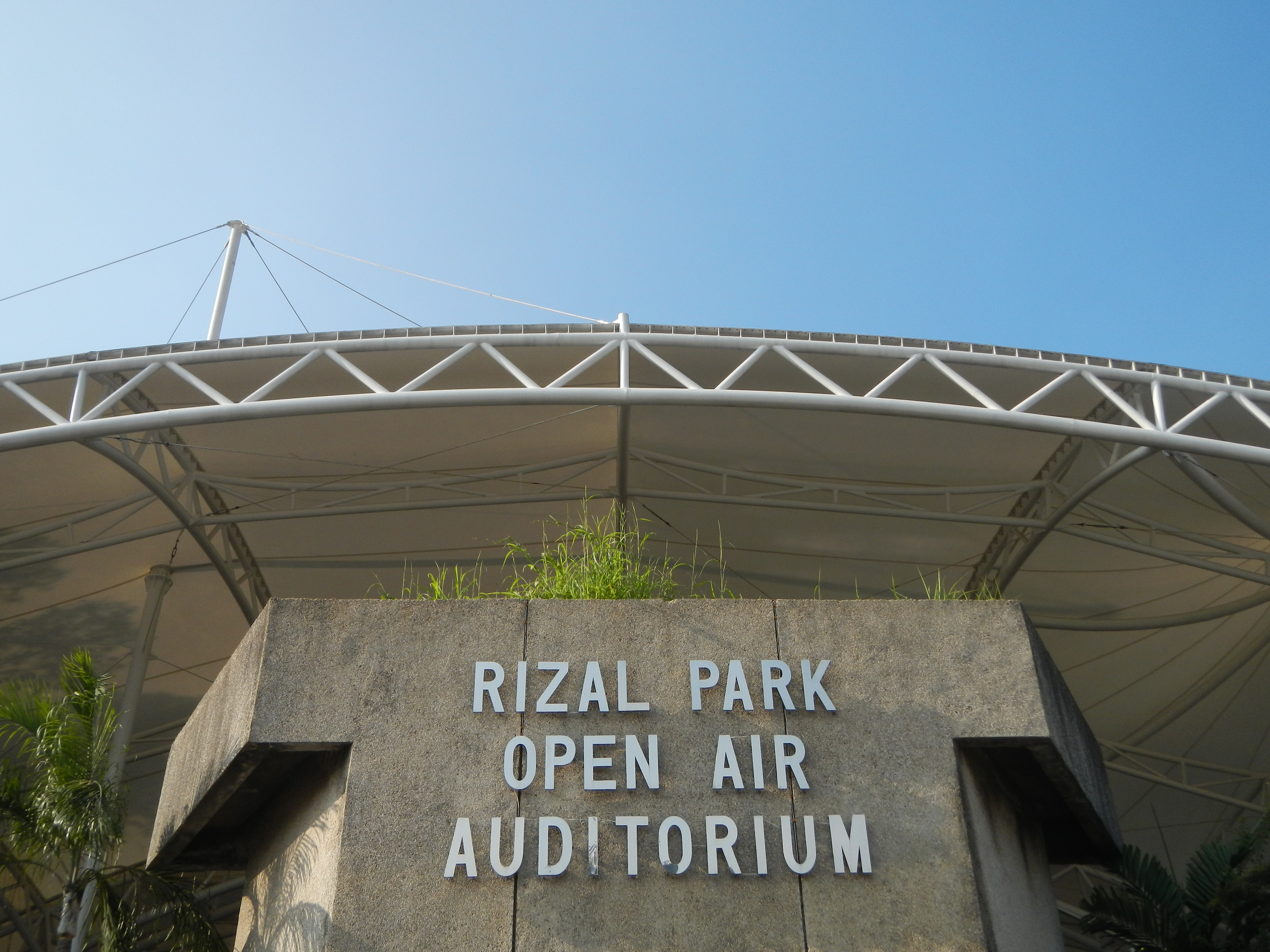 Upload Wizard Panorama photos of -- (general description of landmarks, town, church) - - Rizal Park[1] also Luneta Park or colloquially Luneta, List of public art in Metro Manila[2] - ) Monument of --- Marcelo H. del Pilar[3] Datu Amai Pakpak Confederation of sultanates in Lanao[4] Muhammad Kudarat[5] [6] Aman Dangat List of historical markers in the Philippines [7] Rizal Park Open Air Auditorium Gomburza [8]